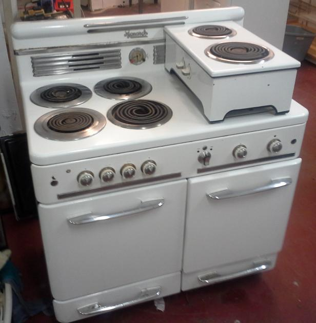 Typical Mid 1950's vintage Monarch range built by the Malleable Iron Range Company of Beaver Dam, Wisconsin, USA